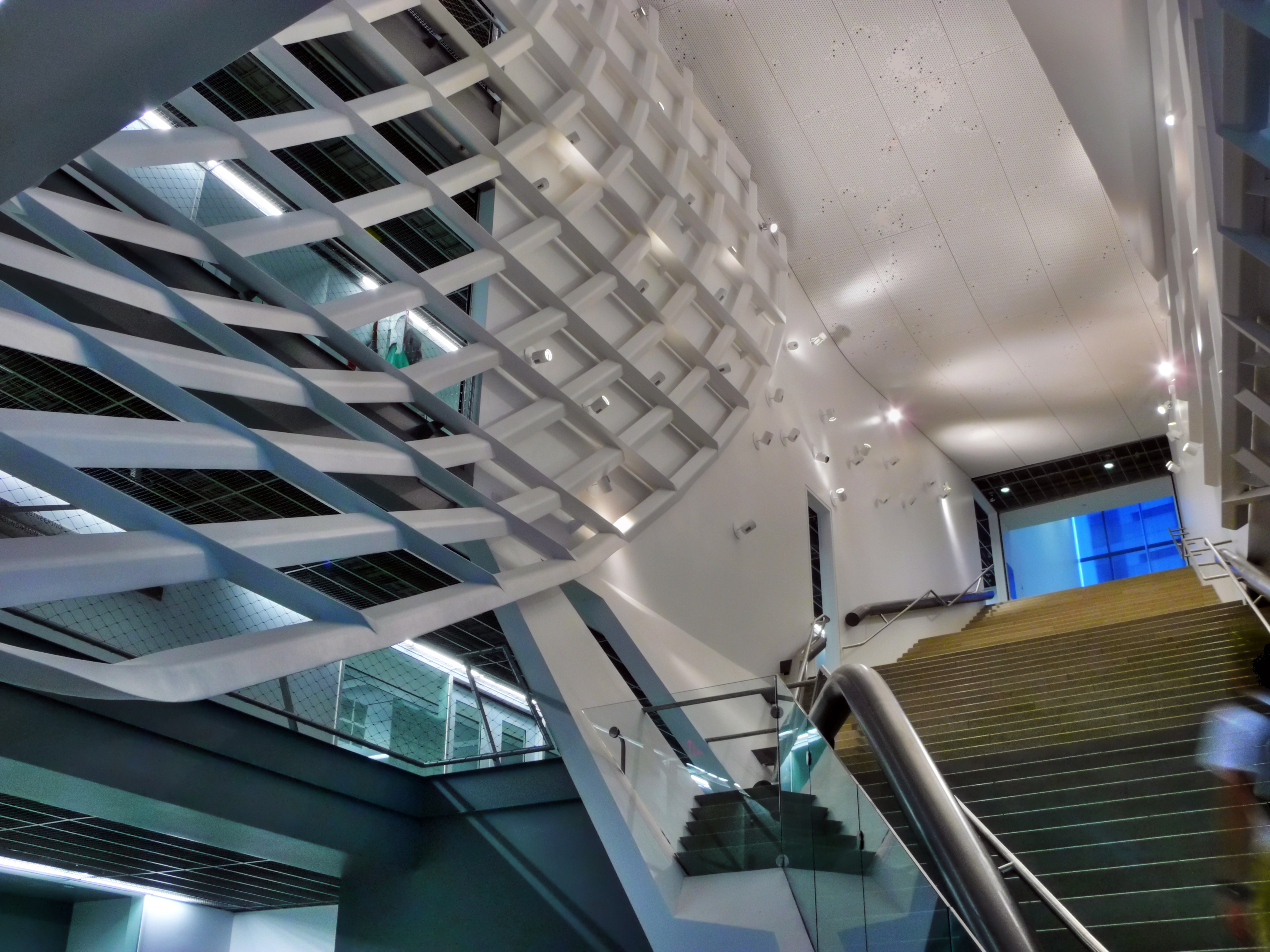 View up the Cooper Union New Academic Building's main atrium, showing Grand Staircase and balconies of floors 1-4.